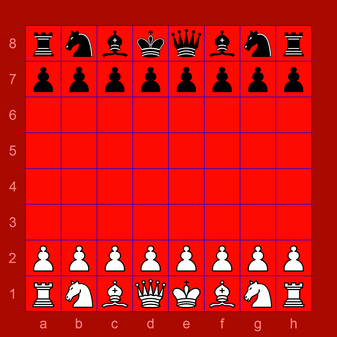 Using the great chess icons fashioned by David Benbennick (User:Dbenbenn). All done in MSPAINT.